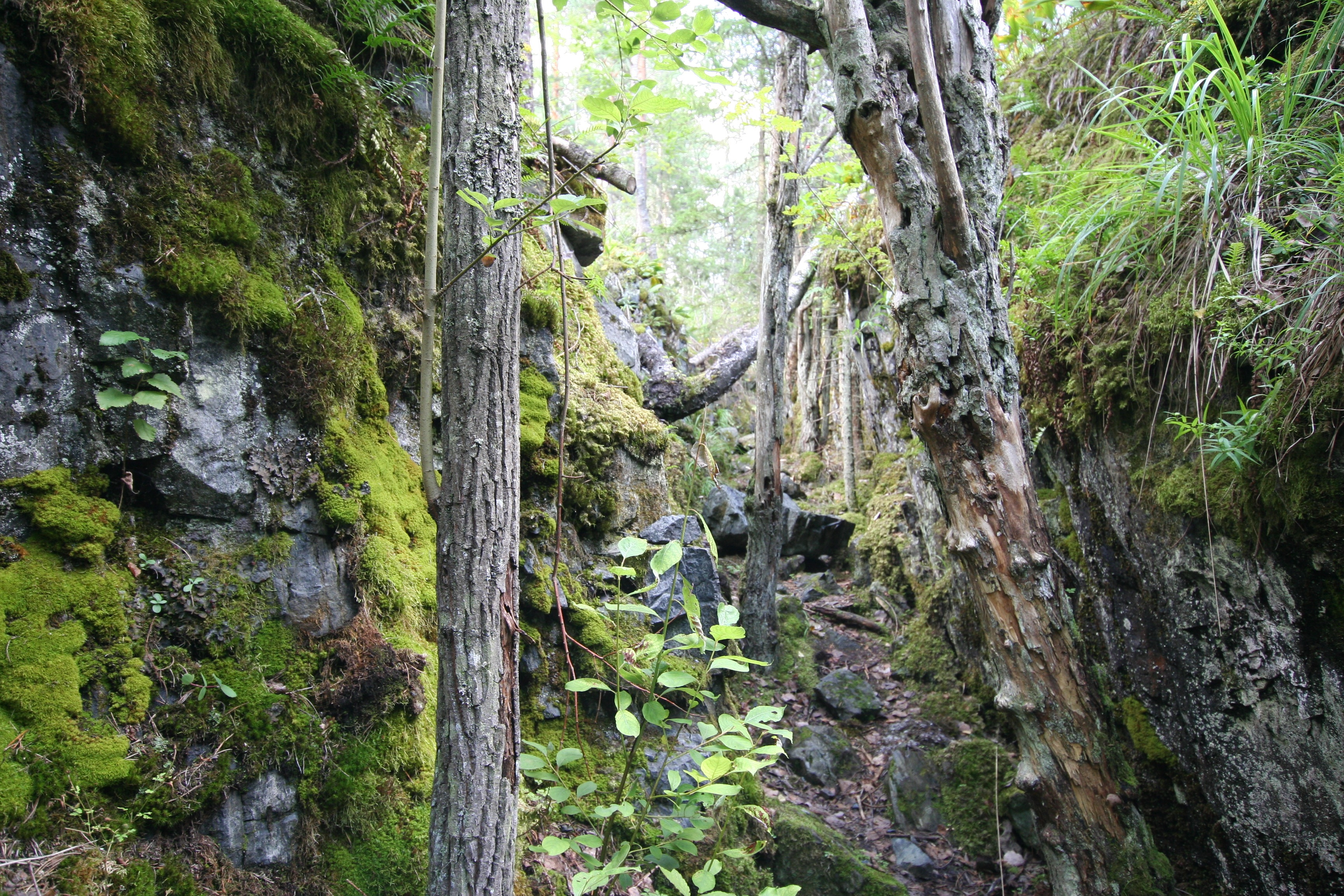 Mustavuori fortress ruins